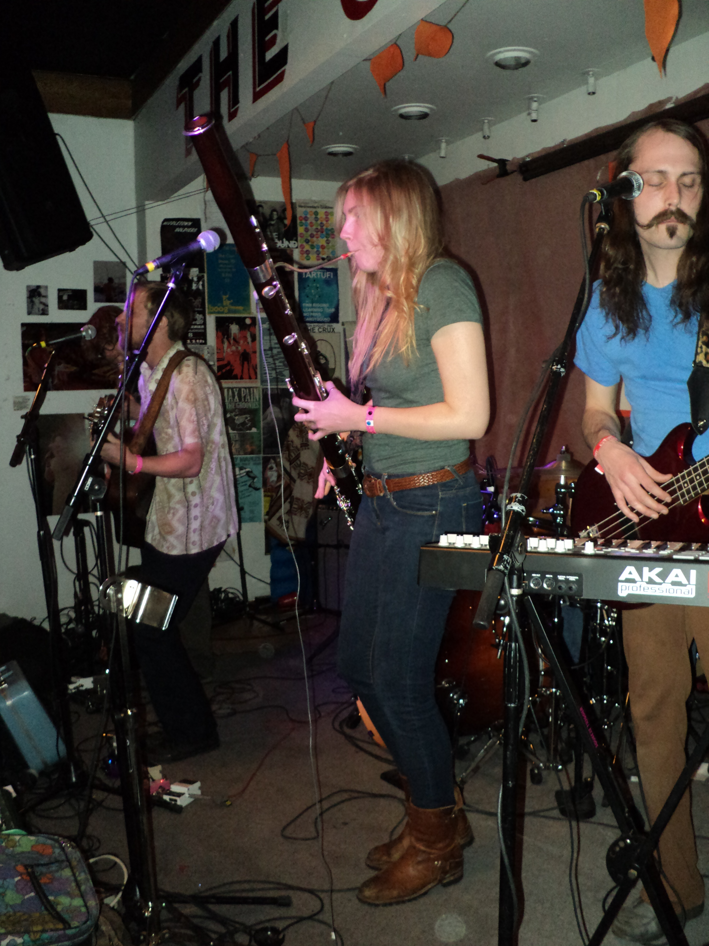 Seattle band Edmund Wayne plays at The Crux on the final night of the second annual Treefort Music Fest in Boise, Idaho.